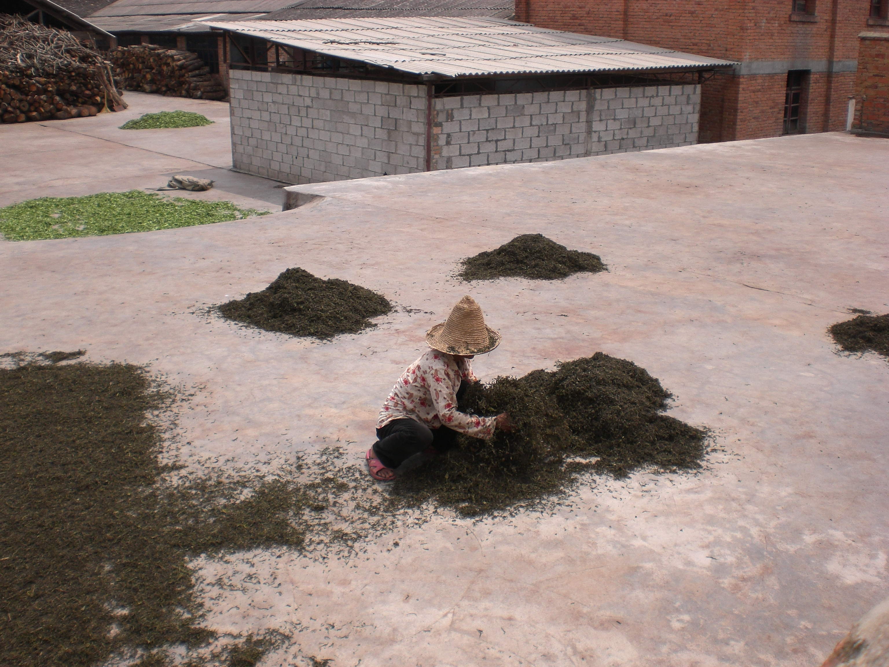 Tea Farm-Wilting